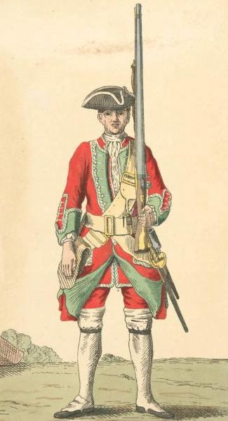 Soldier of the 36th regiment (1742)